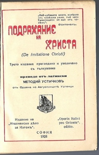 De Imitatione Christi by Thomas à Kempis in Bulgarian 1928